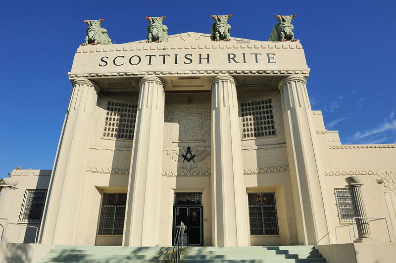 Scottish Rite Masonic Temple in Miami, Florida, USA, in the Lummus Park Historic District